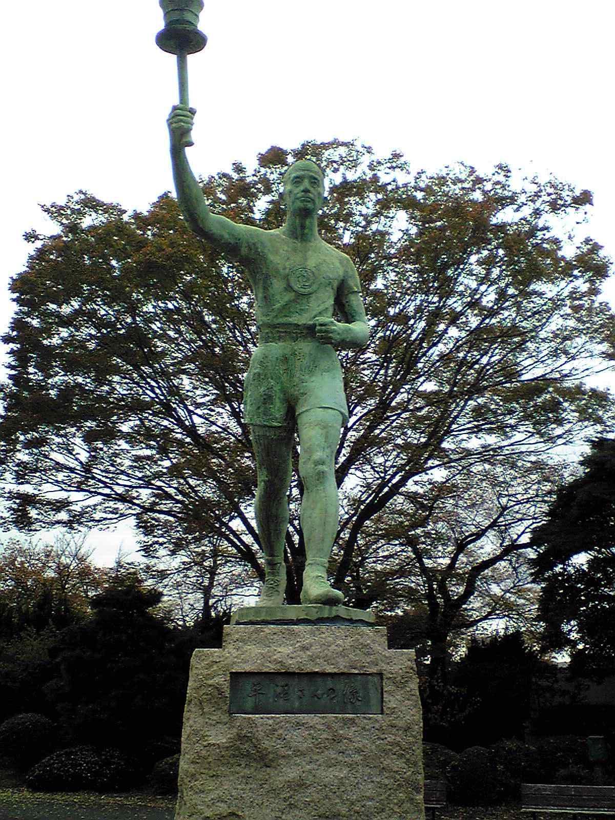 "The Statue of Mr. Hiranuma" (Ryozo Hiranuma平沼亮三)